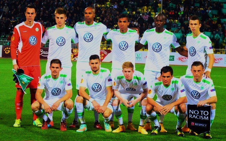 VfL Wolfsburg 2014